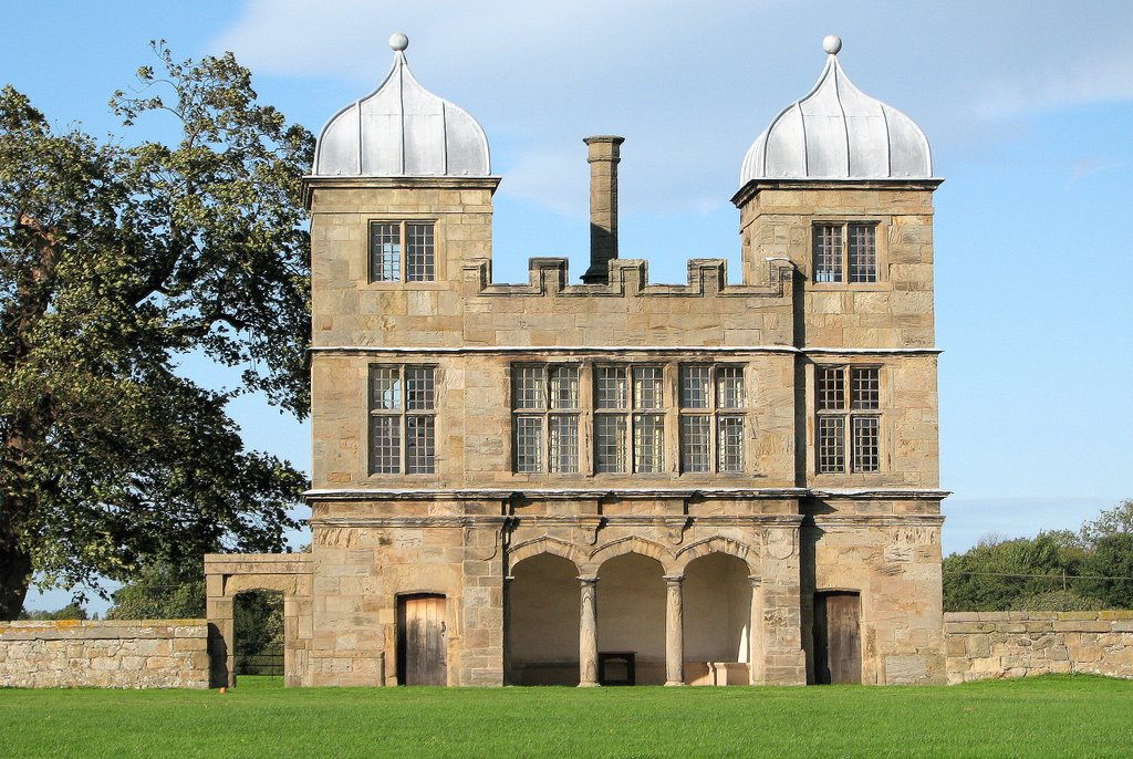 Also known as Swarkestone Stand. This was a pavilion for watching bowling. Now it can be rented for short stays through the Landmark Trust. The building appears on the cover of a 1960s Rolling Stones Album.